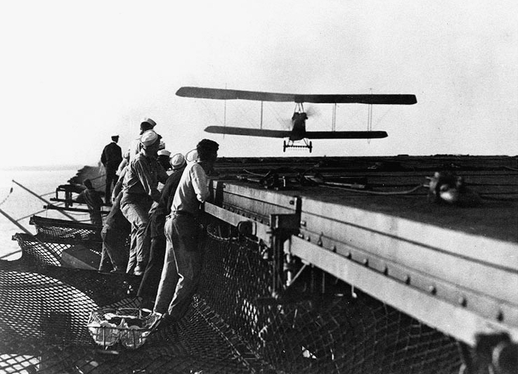 A U.S. Navy Aeromarine 39B airplane approaching the flight deck of the aircraft carrier USS Langley (CV-1) during landing practice, in October 1922. Note: The date given is 19 October 1922, although LCdr. Godfrey Chevalier made the first landing on Langley on 26 October.